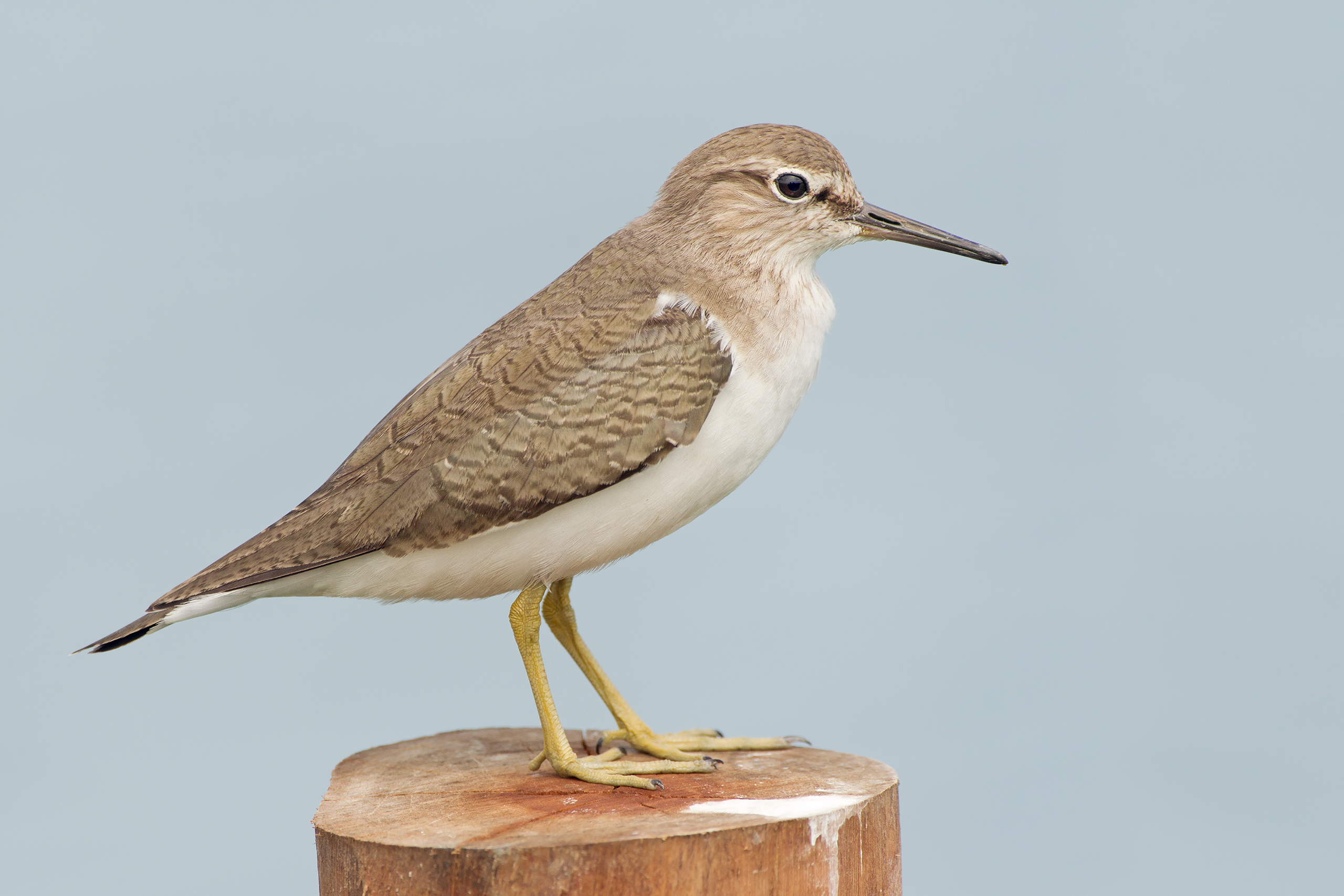 Common Sandpiper (Actitis hypoleucos), Laem Pak Bia, Petchaburi, Thailand